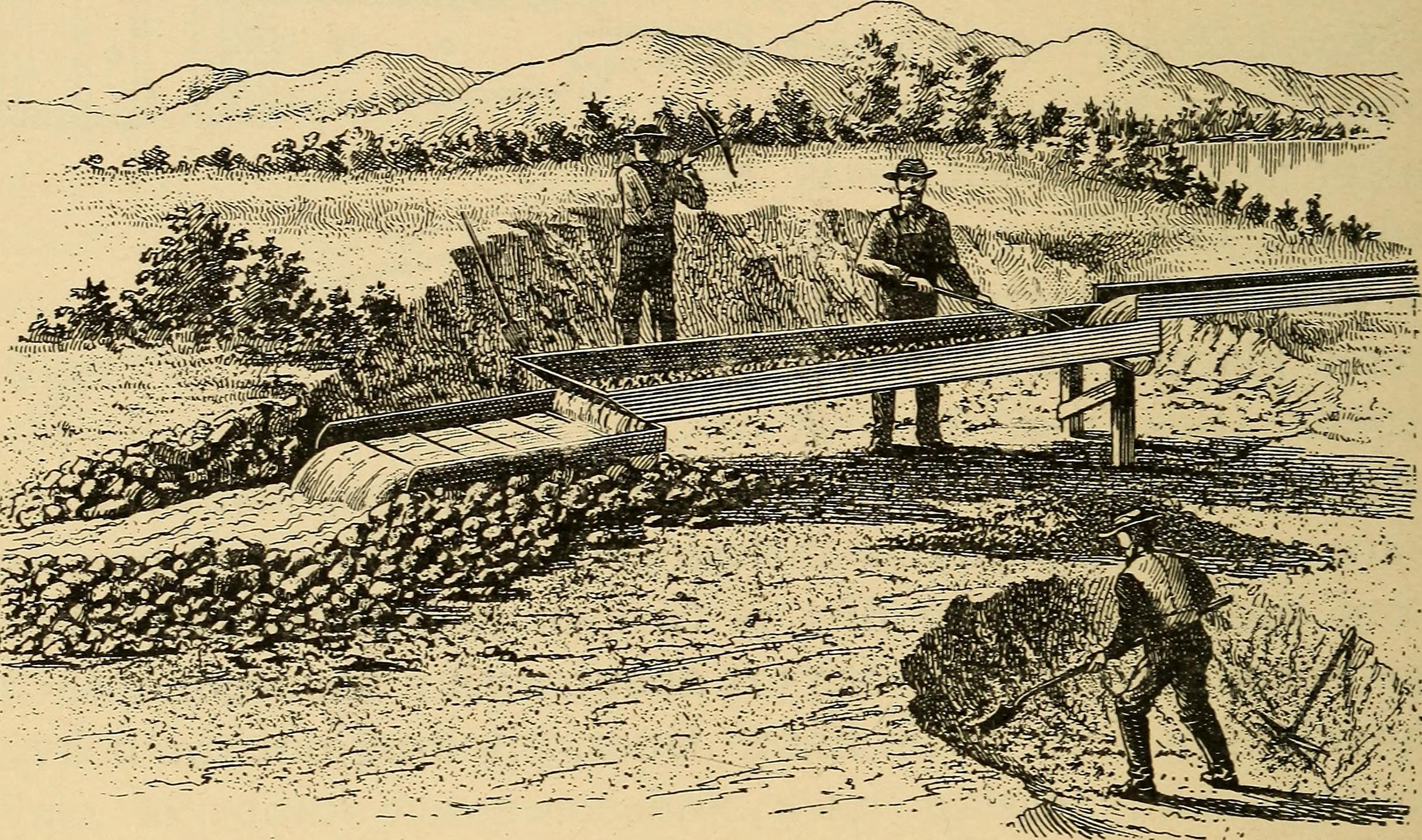 Title: Placer mining. A hand-book for Klondike and other miners and prospectors.. Year: 1897 (1890s) Authors: Colliery Engineer Company (Scranton, Pa.) Subjects: Gold mines and mining Placer mining Publisher: Scranton, Pa., The Colliery engineer co. Text Appearing Before Image: 100 PLACER MINING. grating and are removed as often as necessary. Beneaththis grating stands the riffle box b, into which fine material,including gold, descends. The riffle boxes, of rough plank,are also placed on an incline, just enough so that the waterpassing over them will allow of the bottom becoming andremaining covered with a thin coating of fine mud. In thisway the gold and a few of the heavier materials find theirway to the bottom and rest there by aid of the riffle bars.Sometimes a little mercury is put behind the riffles to assistin retaining the gold, and the riffle box is supplemented bya series of blankets for catching very fine gold. Toms are Text Appearing After Image: Fig. 31. cleaned up periodically, and the gold and amalgam washedout with cradles. They are applicable only to workingswhere the gold is coarse, as they lose considerable of the finegold. Two to four men work at one Tom. Fig. 31 showsa Broad Tom in operation. PLACER MINING. 101 SLUICES. Sluices were introduced soon after the Tom. A sluiceconsists of an inclined channel, through which flows a streamof water, breaking up the earth which is thrown into it,carrying away the light barren matter, and leaving the goldand heavy minerals. There are box sluices and groundsluices, the former being raised above the surface, necessi-tating the lifting of the pay dirt into them ; the latter are sunkbelow the surface. Box sluices, or board sluicing, are longwooden troughs or series of troughs. They vary in lengthfrom fifty to several hundred feet, and are never less than 1foot, and seldom more than 5 feet, wide. The usual widthis 16 to 18 inches, and the height of the sides 8 inches to 2feet. The sl